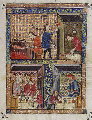 Illumination from the Rylands Haggadah in the John Rylands Library in Manchester. The Preparation for the Seder (above) and The Celebration of the Seder (below).